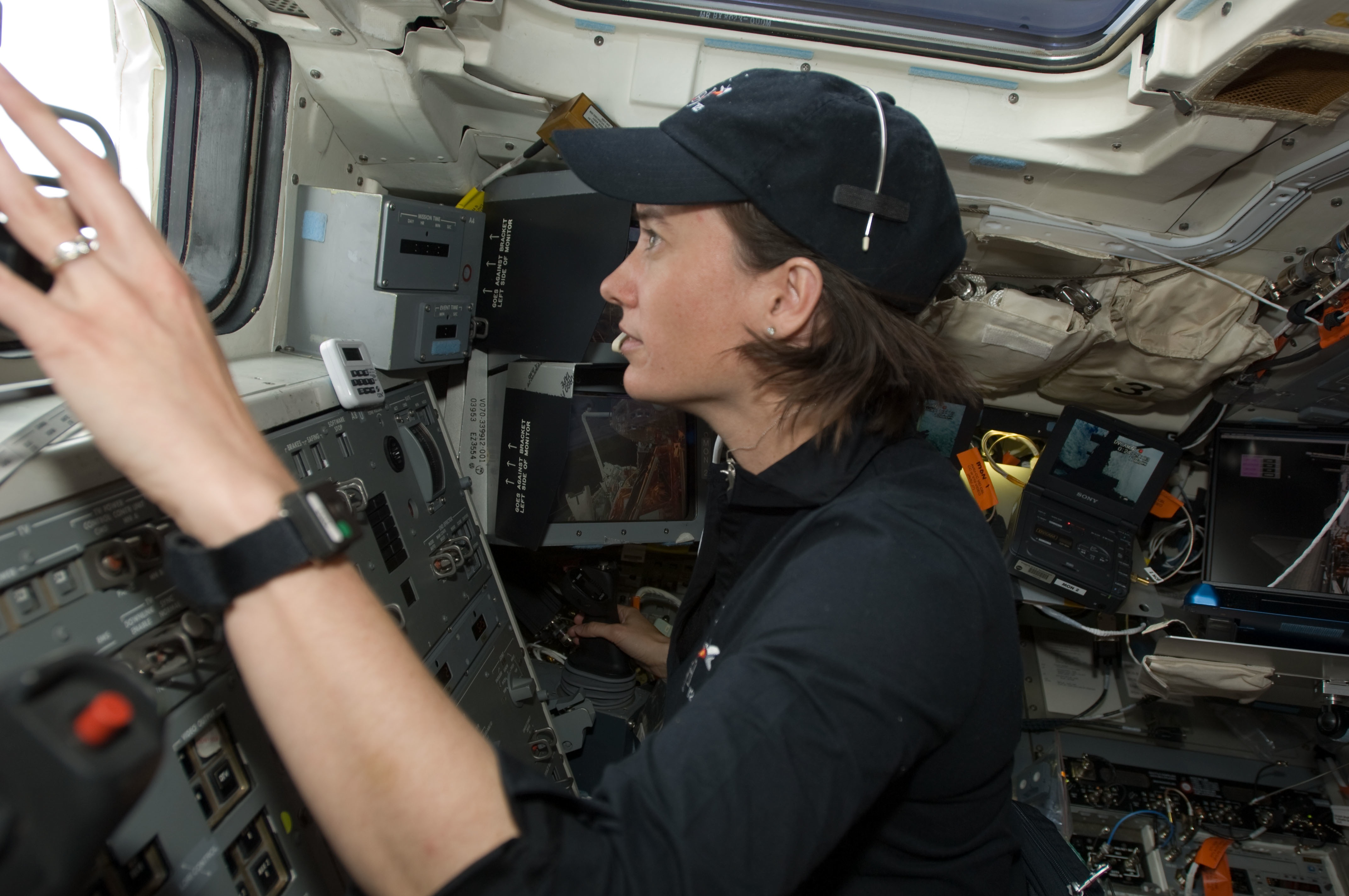 Astronaut Megan McArthur, STS-125 mission specialist, works the controls of the remote manipulator system (RMS) on the aft flight deck of the Earth-orbiting Space Shuttle Atlantis during flight day eight activities.